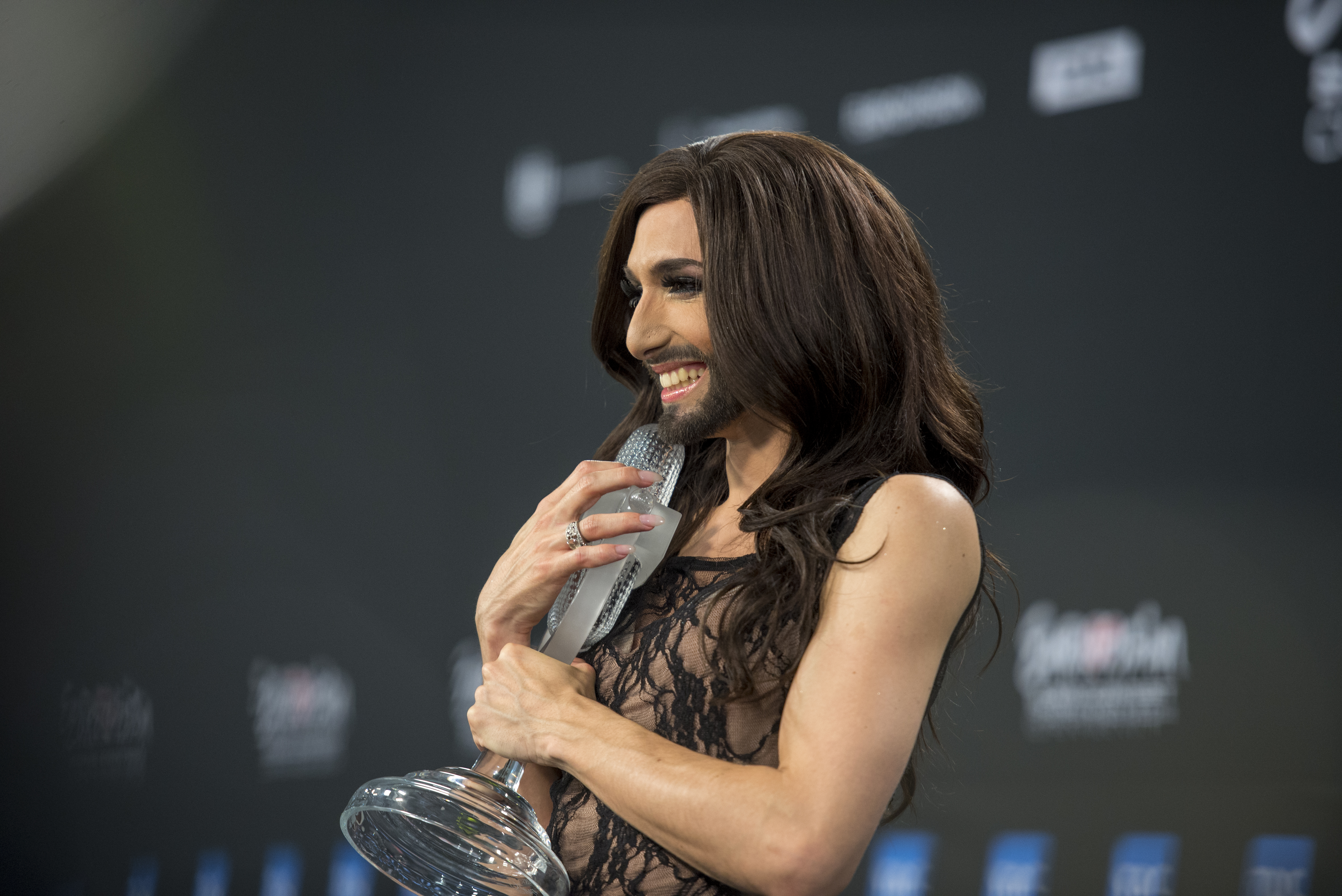 Conchita Wurst at the winners press conference, right after winning the Eurovision Song Contest 2014 Copenhagen. (Help translate this text)